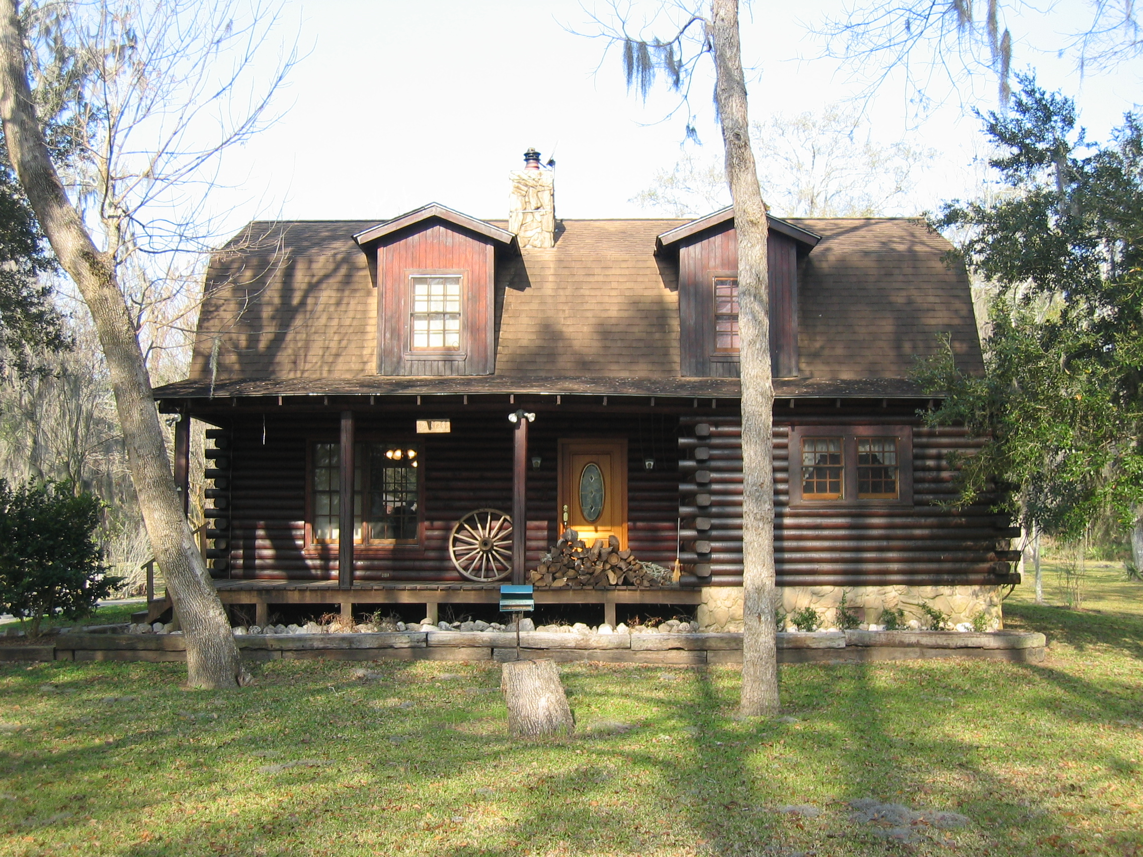 I took this photo of my own home on Dec. 31st, 2005.